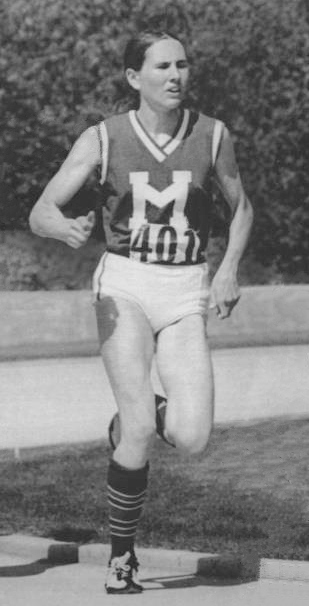 1975 Press Photo Mernill Heading For Pan American Games - RRQ23813